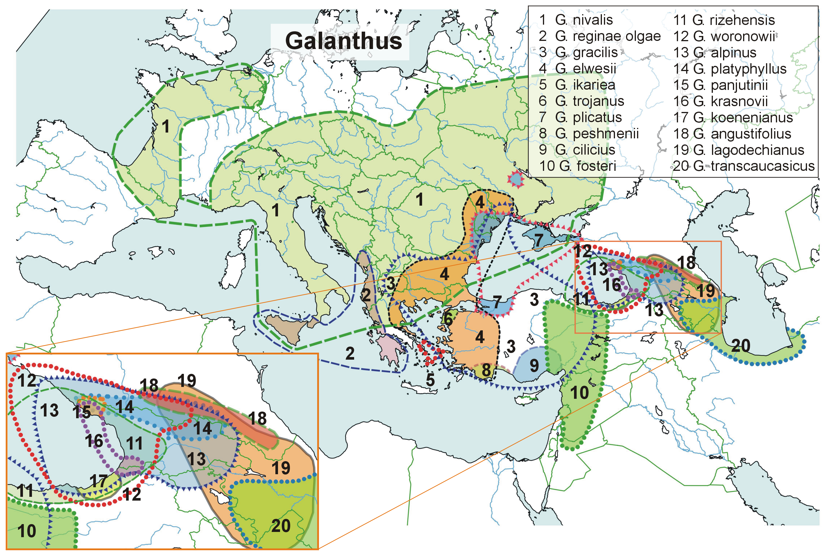 Distribution map of snowdrop species (Galanthus) in Europe and Western Asia. (Natural spread according to A. P. Davis "The Genus Galanthus" and